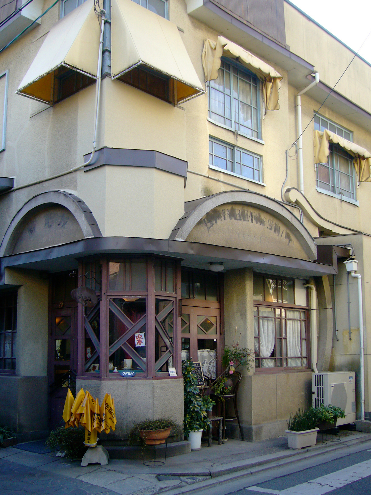 Cafe of Tomonoura in Fukuyama, Hiroshima, Japan